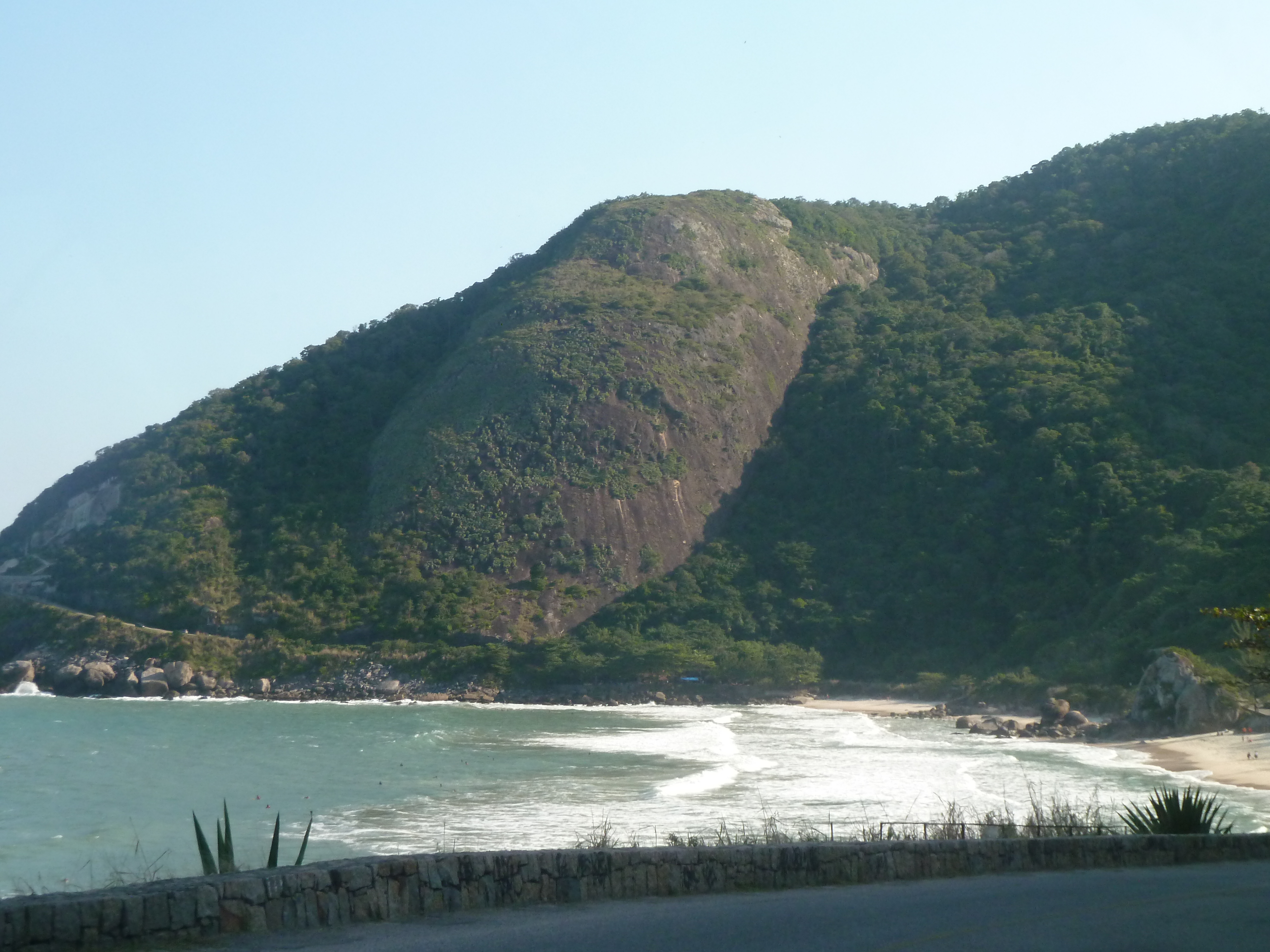 Prainha Beach, in Barra da Tijuca, RJ, Brazil.